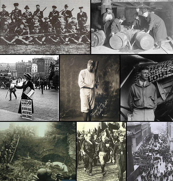 A montage of notable events in the 1920s.